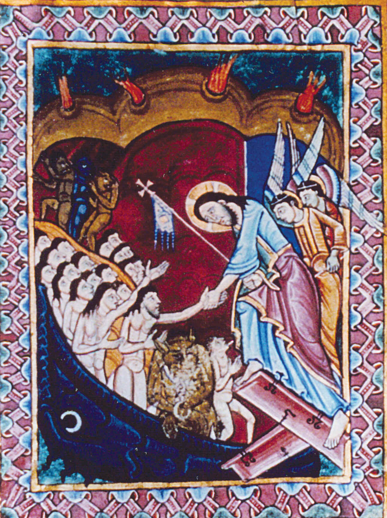 Christ's descent into Hell. Miniature from St. Albans Psalter mirror-inverted version, original see here: [1]